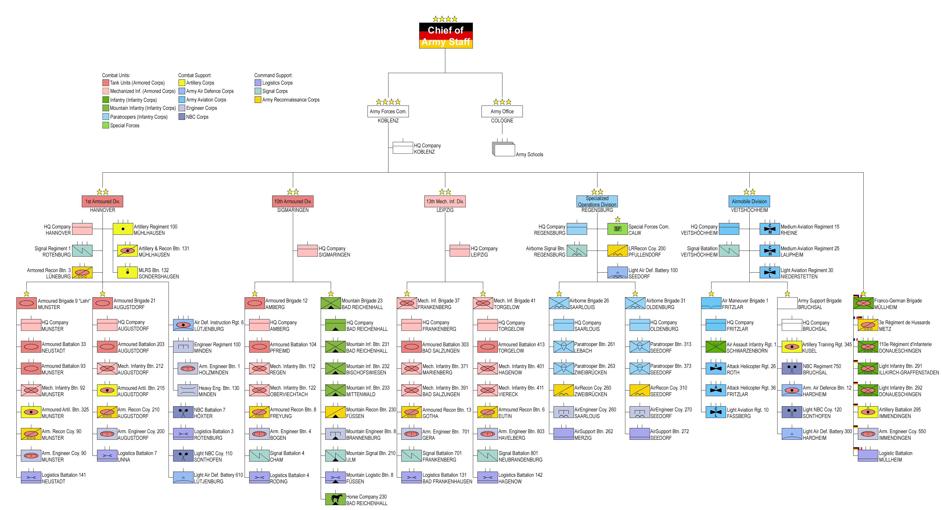 Structure of the German Army until the end of 2011